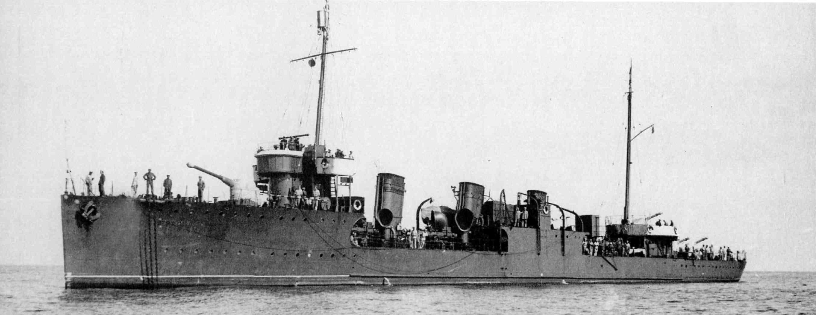 Soviet destroyer Dzerzhinskii.